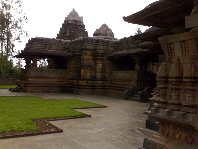 Hangal Tarakeshwara temple (half(back))